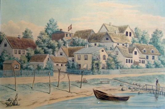 Snekkersten (at Gydevej) on the Øresund coast North of Copenhagen in about 1880.